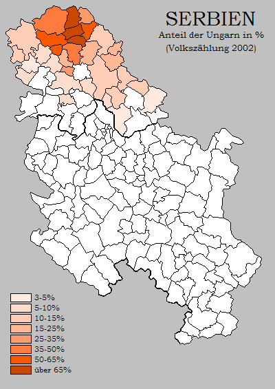 This map shows the percentage of Hungarians in Serbian municipalities according to the 2002 census.